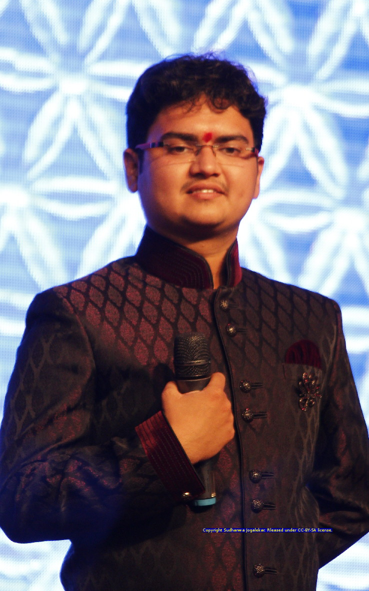 Prathamesh Lagate from Little Champs, Marathi